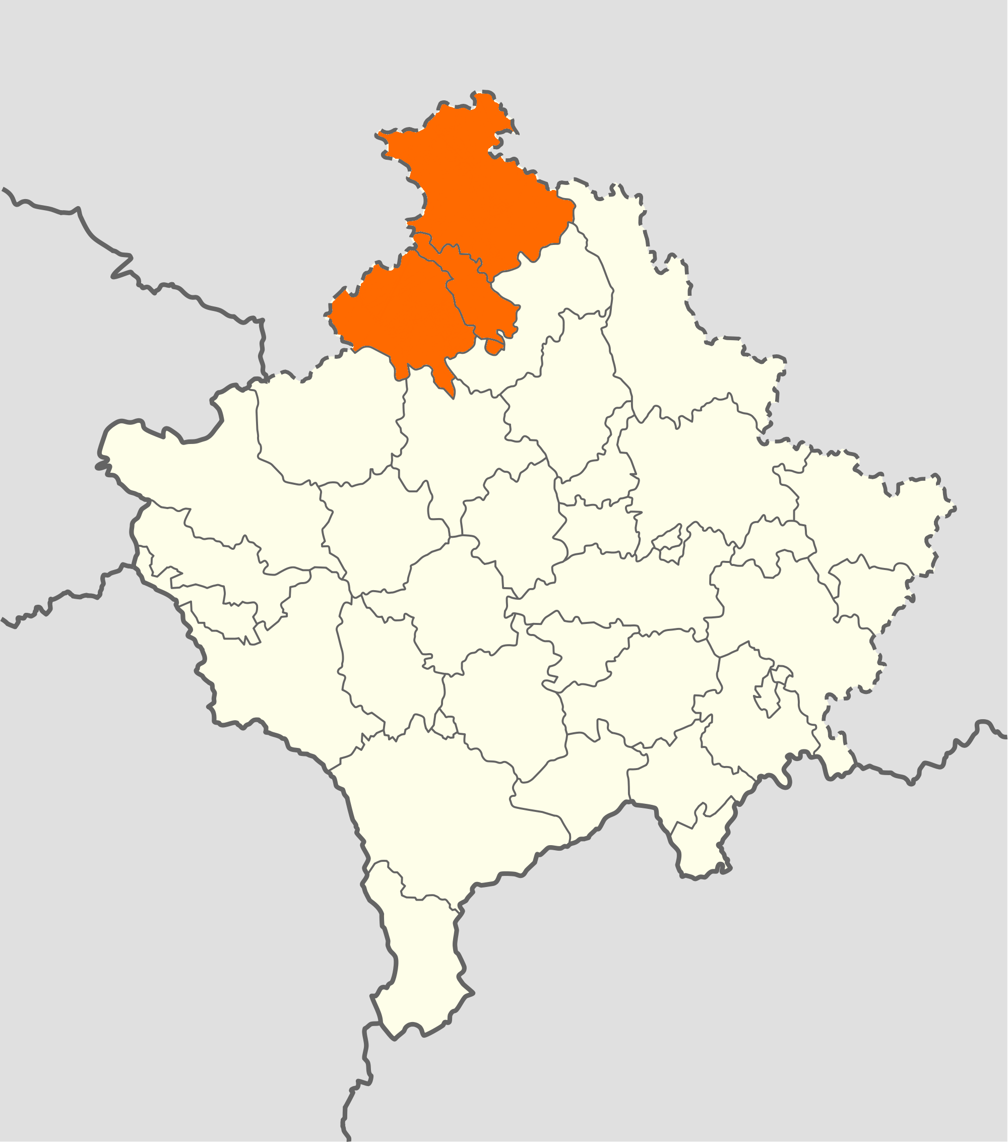 North Kosovo blank map